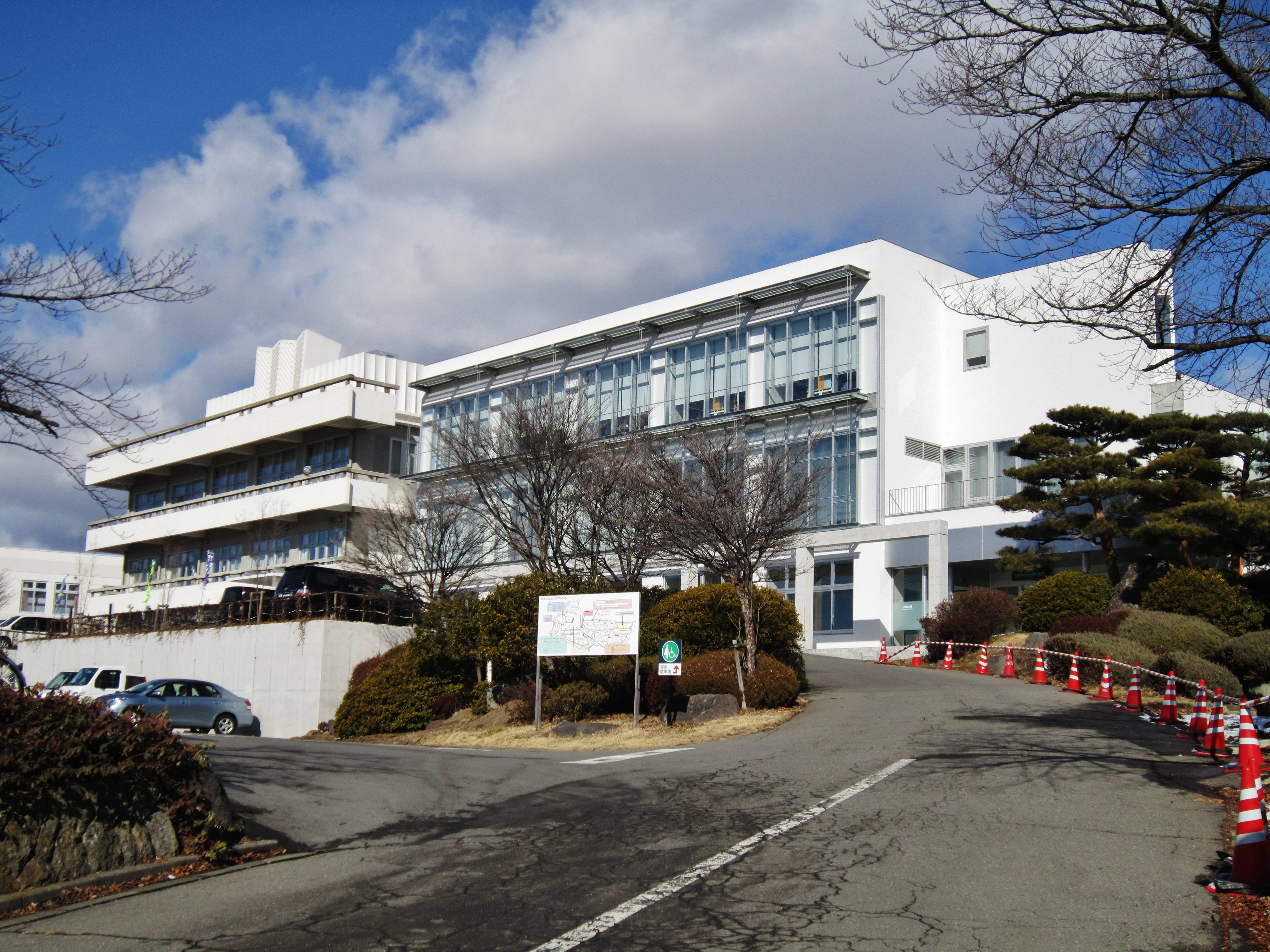 Tōmi city office.